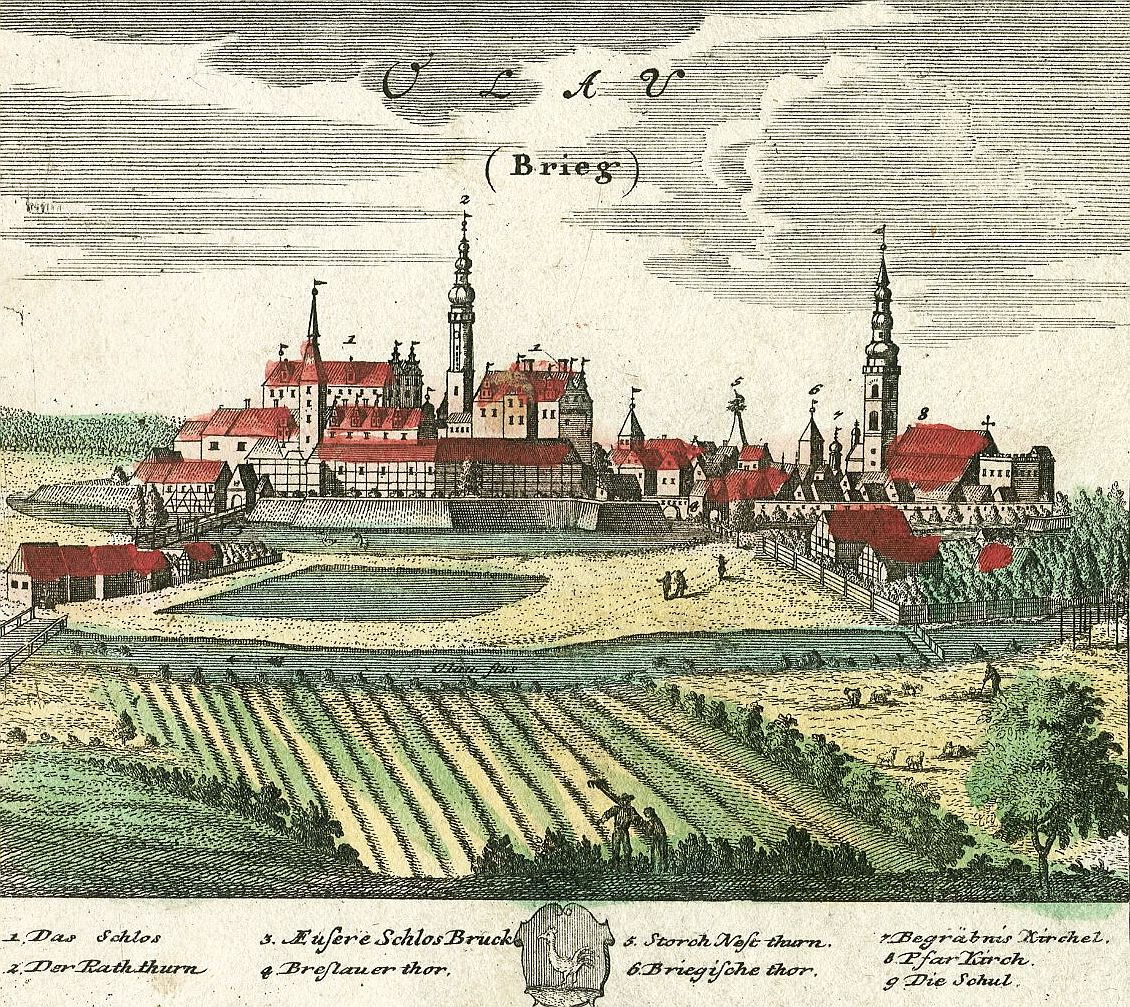 Oława is a town in southwestern Poland, in Silesia.